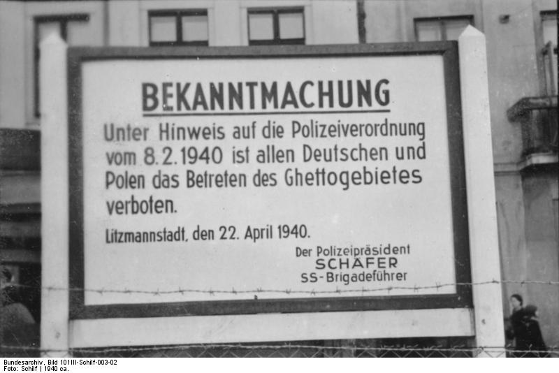 Information added by Wikimedia users.Poland, Lodz ghetto. Sign reads: "Notice. Regarding the Police Regulation of 08.02.1940, it is prohibited from entering the ghetto area for all Germans and Poles. Lodz, the April 22, 1940. The Police Chief Schäfer, SS-Brig.